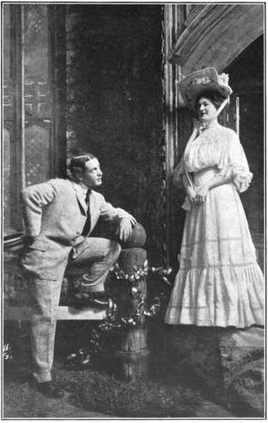 Photograph of Frederick Truesdell and Dorothy Tennant in George Ade's 1904 play "The College Widow" In the October 1904 issue of the The Theatre, p. 240